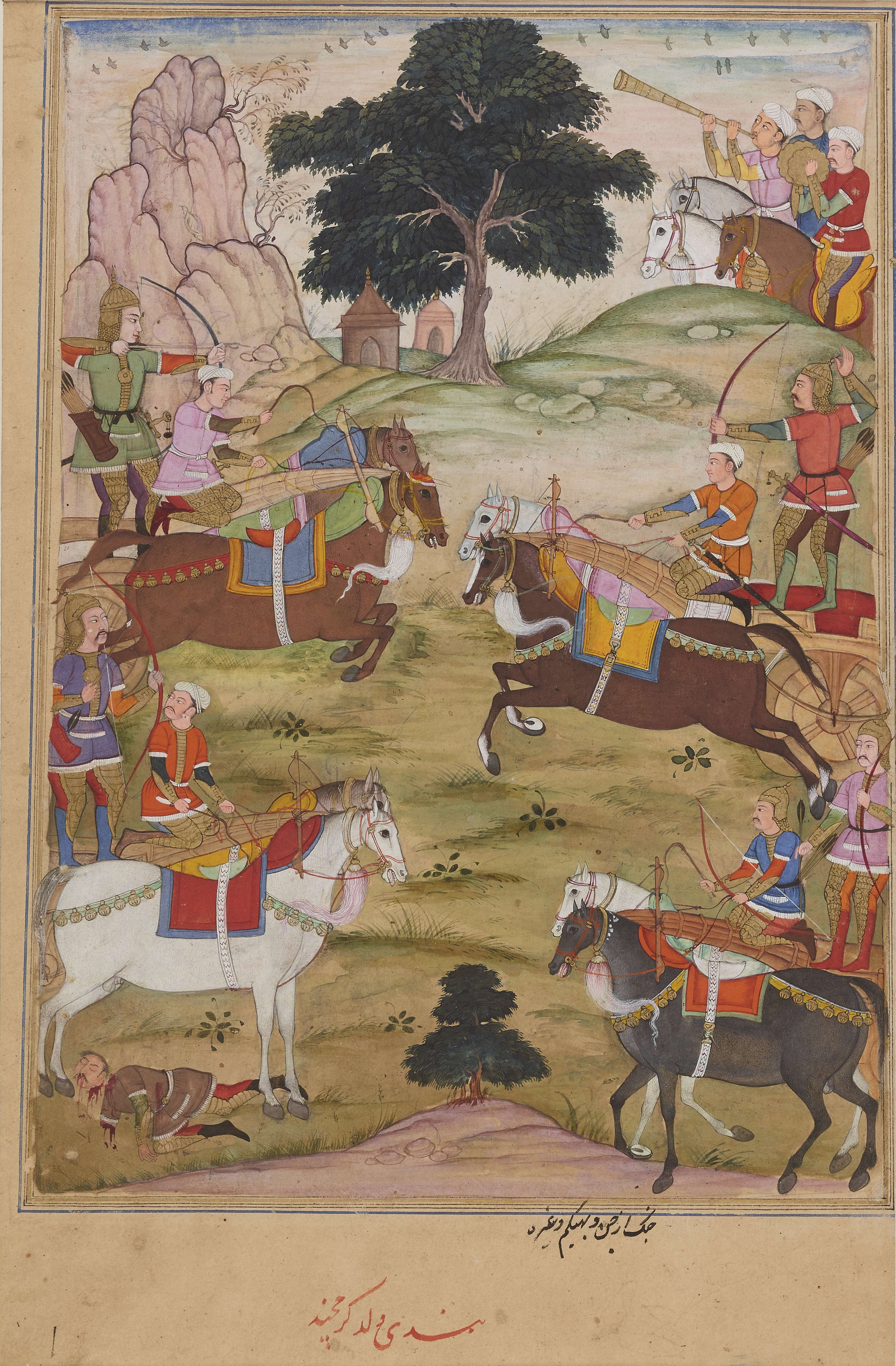 Painting; detached album leaf. This archaic battle scene, taken from the epic Razmnameh, depicts Arjuna and Bhishma in their war chariots attacking one another from opposing sides. Charioted horses await below, while a group of horsemen, sounding a trumpet and drum, stand in the top right corner. No text.